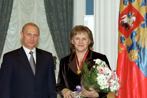 THE KREMLIN, MOSCOW. Film actress Nonna Mordyukova receiving the Order for Service to the Fatherland, 3rd Class at a state award ceremony.